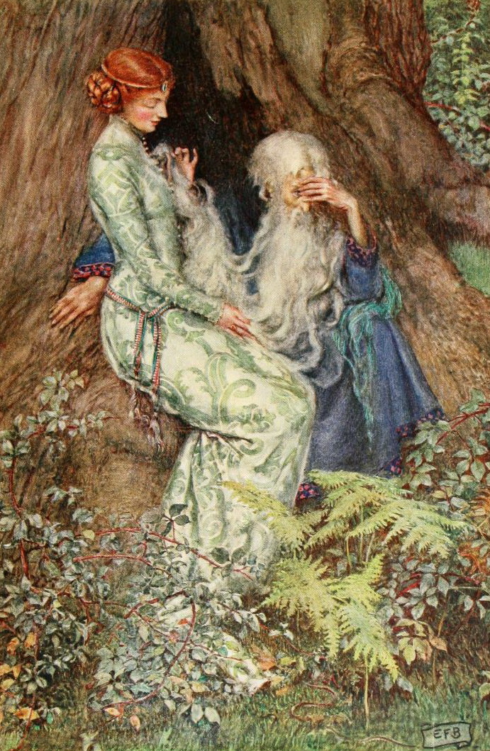 Idylls of the King (1913) with illustrations by Eleanor Fortescue-Brickdale